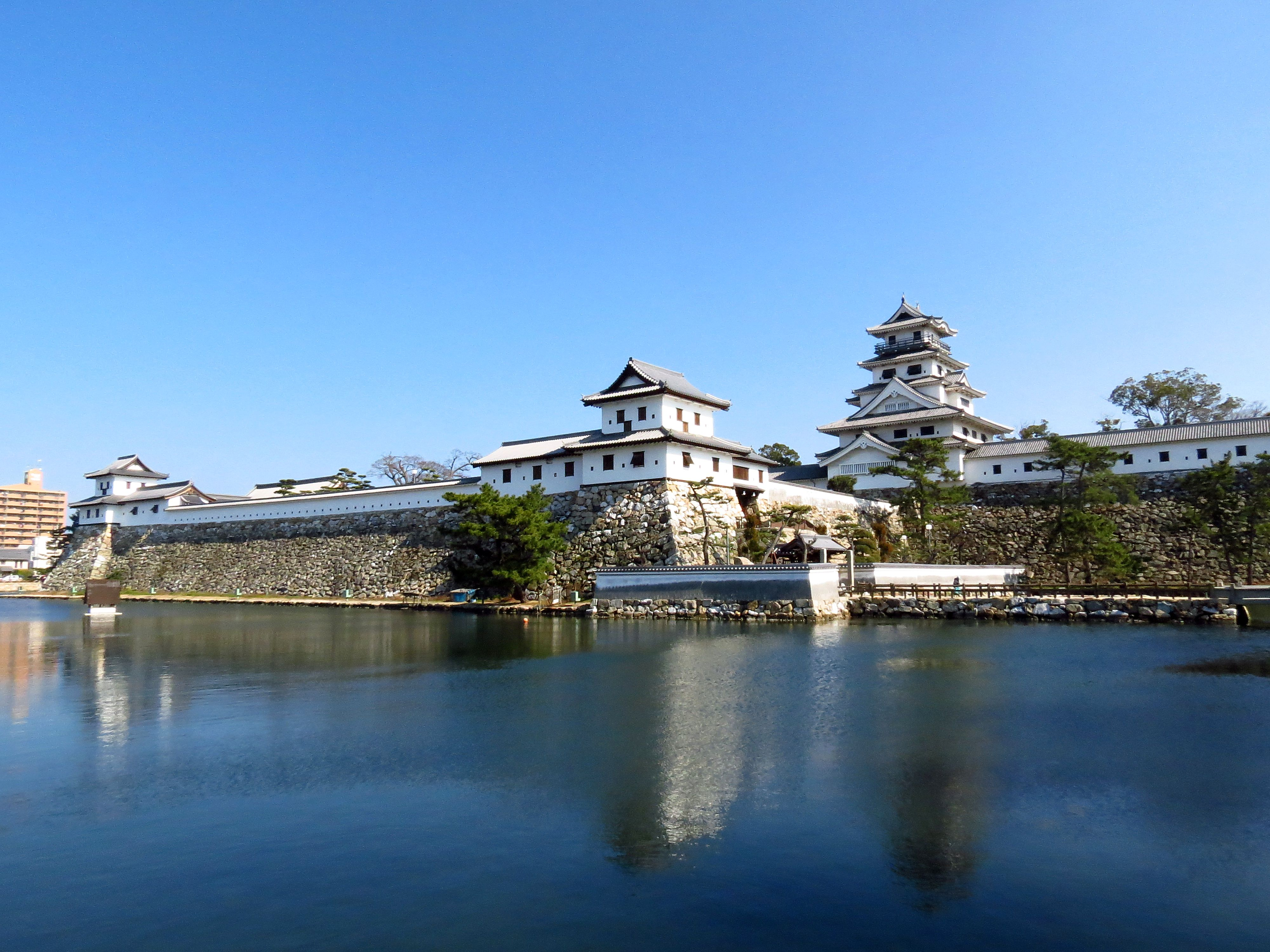 Imabari Castle